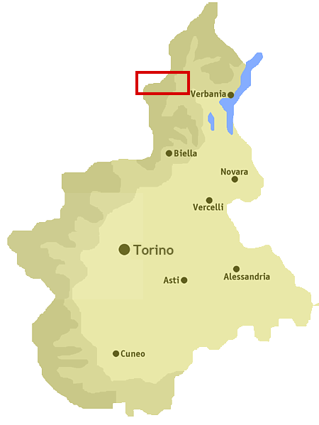 Position of the valley Valle Anzasca